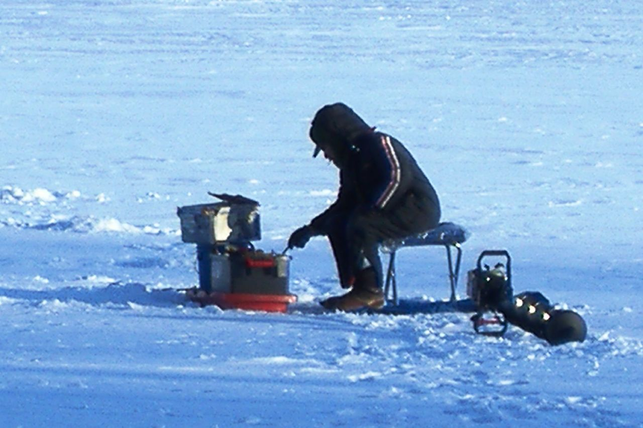 Ice fishing on Lake Harriet, Minneapolis, Minnesota